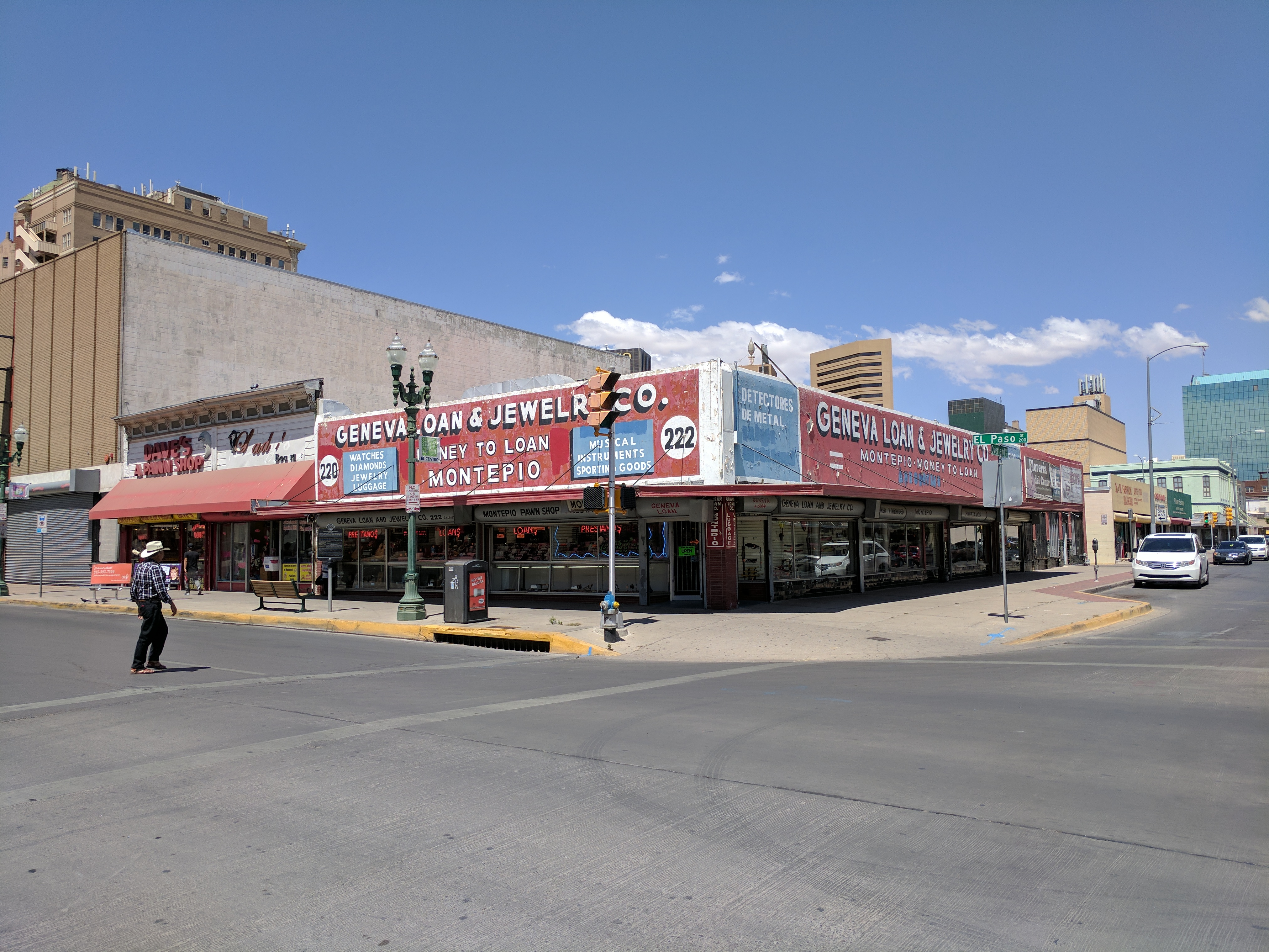 Pawn shop in the shopping area of El Paso, Texas.